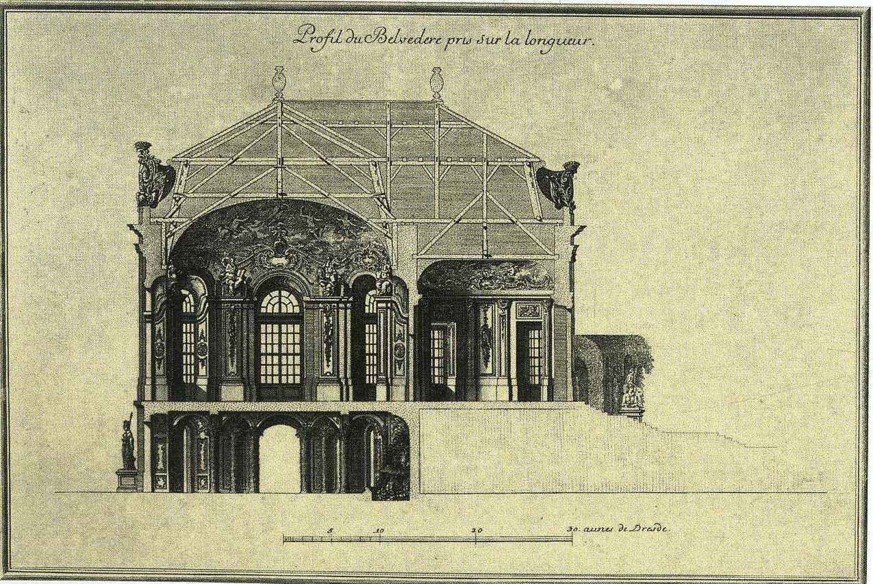 Zweites Belvedere